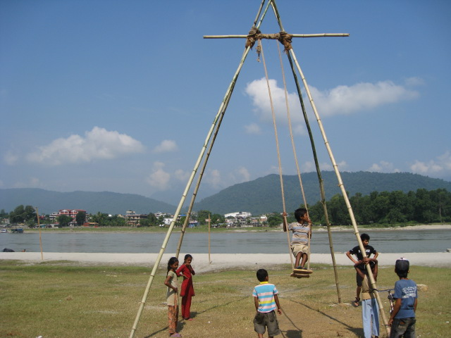 Children enjoying in the traditional bamboo swings during the Dasain and Tihar festival